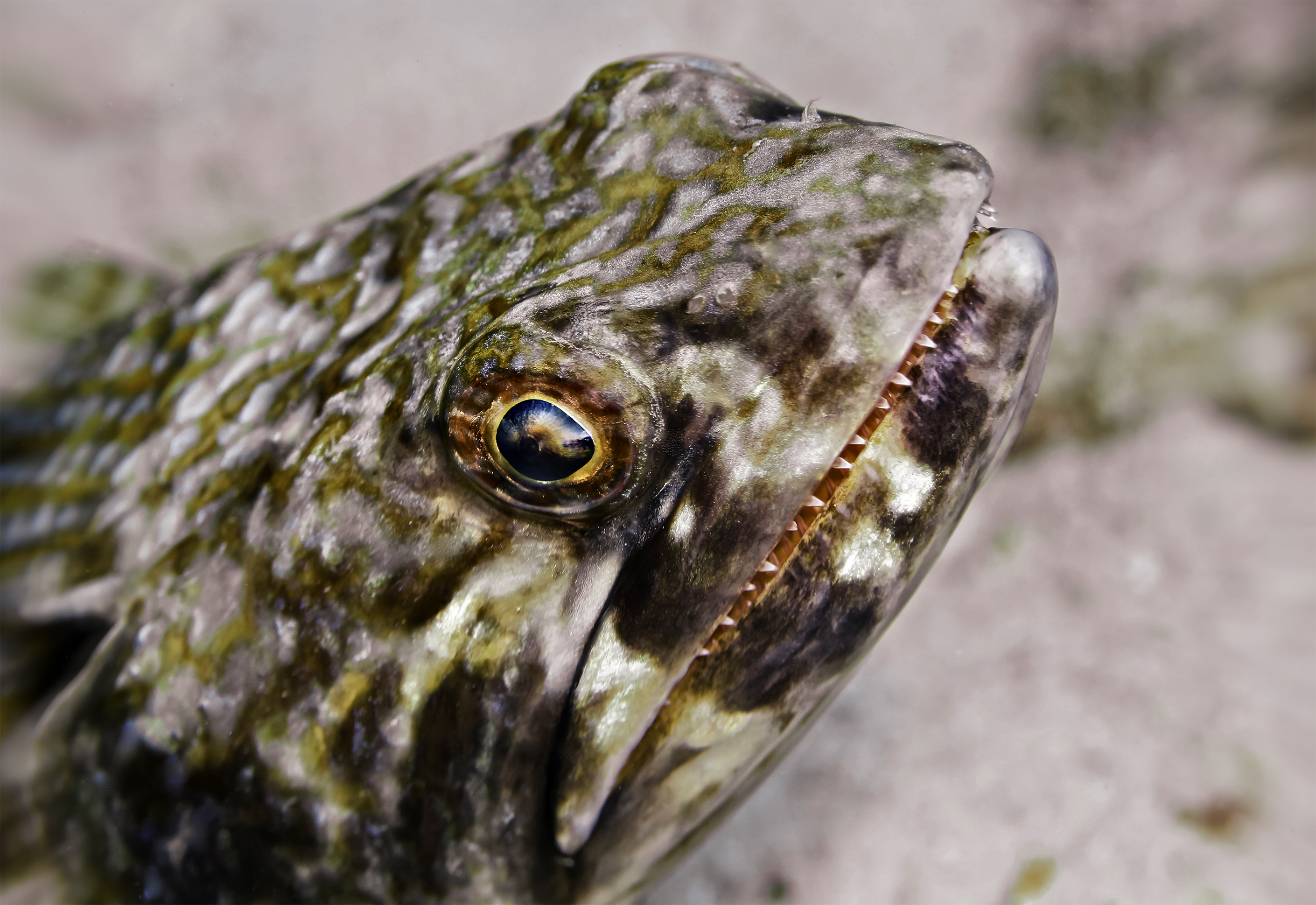 Lizard fish on Bari Reef in the Dutch Caribbean